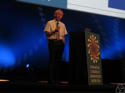 Photo of Alfio Quarteroni